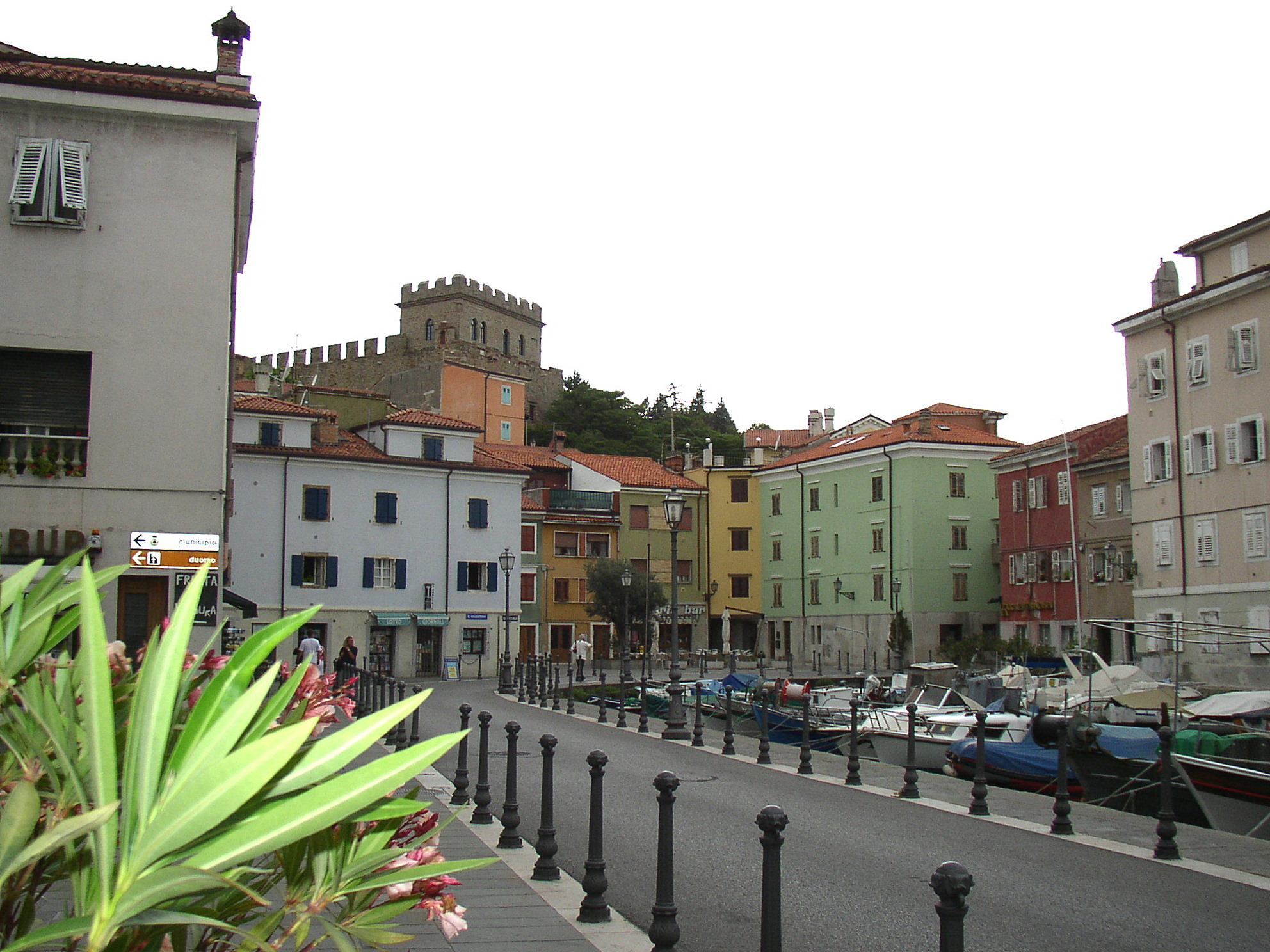 Muggia harbour